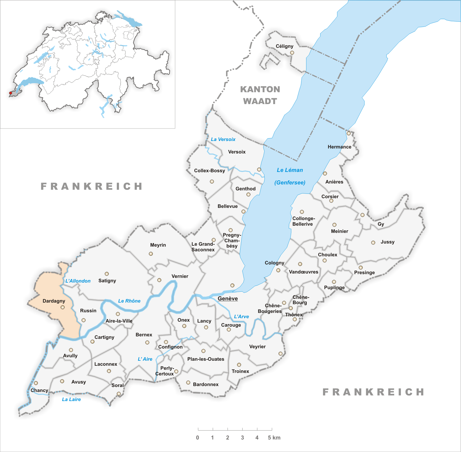 Municipality Dardagny